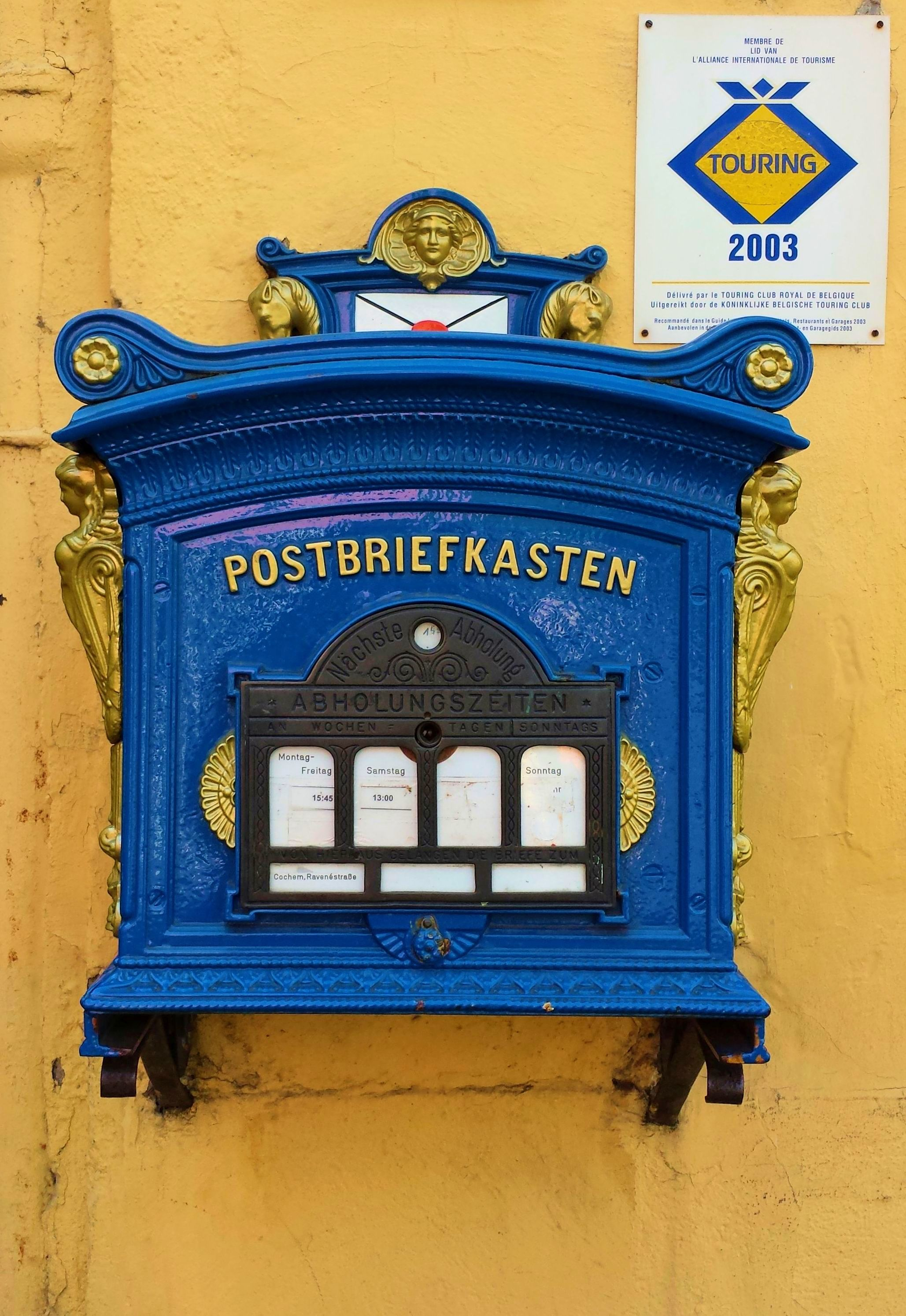 Historic mailbox at the Thorschenke in Cochem